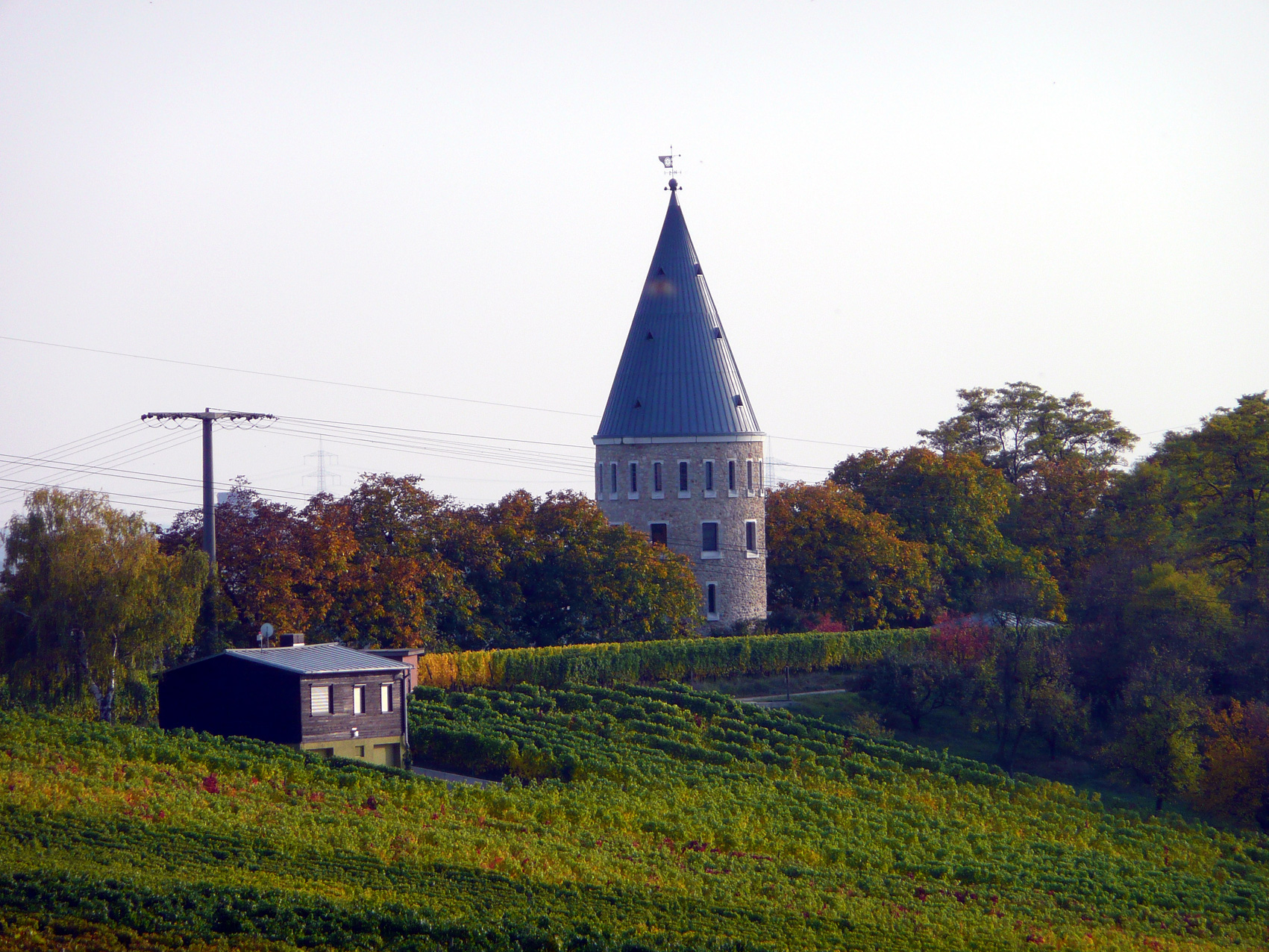 View of the "Flörsheimer Warte" as seen from Wicker, October 2008